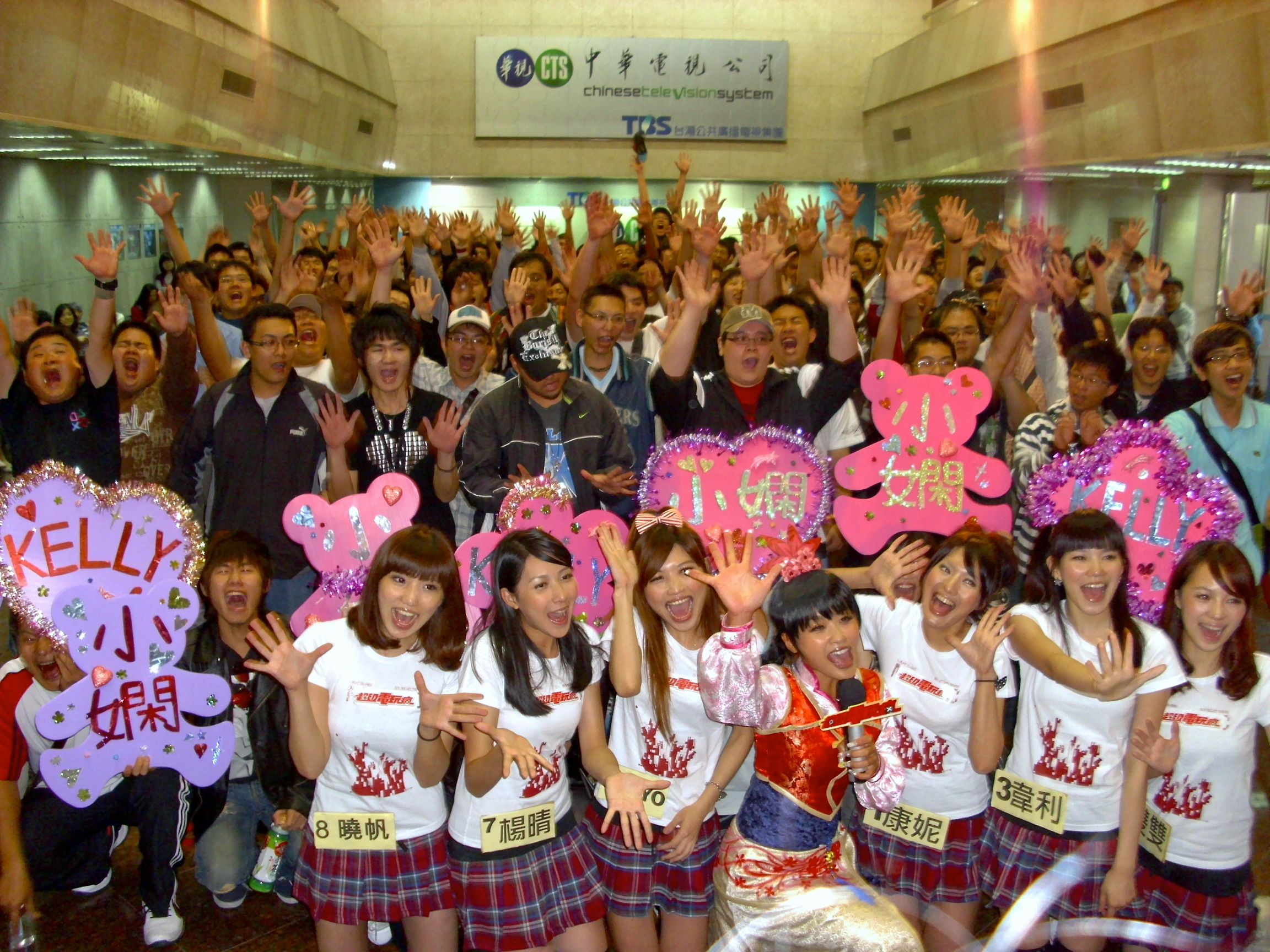 CTS "Super Game Crazy" Press Conference.